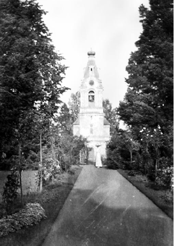 Church in Arkhangelsk-Tyurikova.